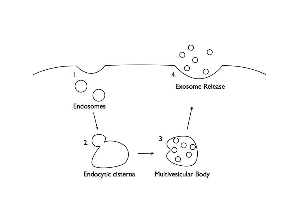 The process of the formation of exosomes